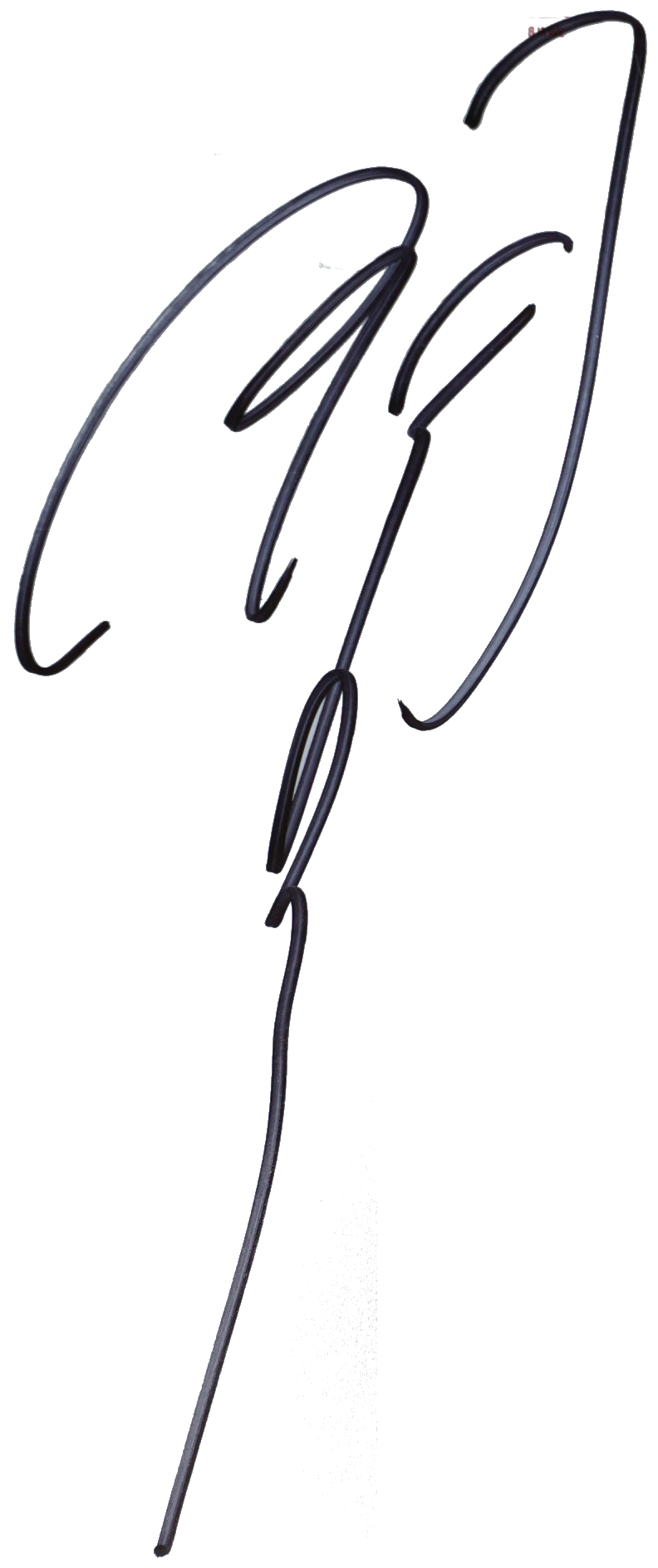 Signature of Kanako Urai (AKA Asuka)